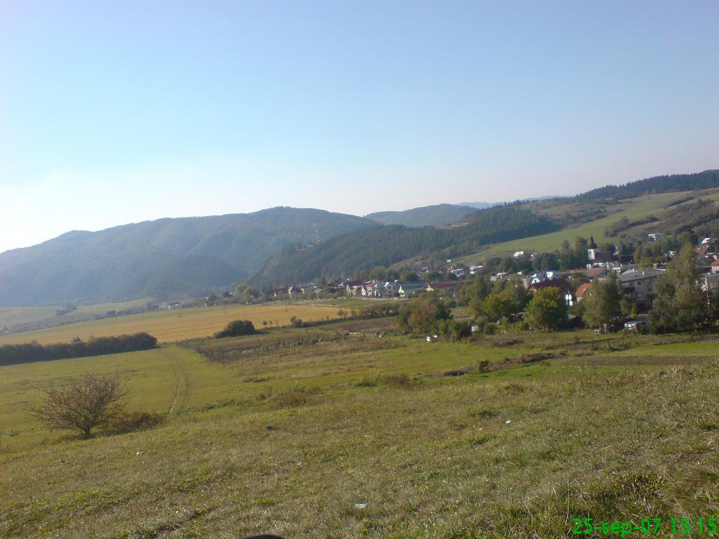 Turie